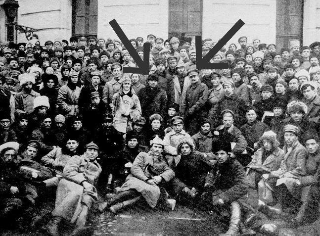 Lenin, Voroshilov (behind Lenin) and Trotsky among soldiers among the delegates to the Tenth Congress of the R.C.P.(B) - the participants in the liquidation of the Kronstadt uprising, Moscow